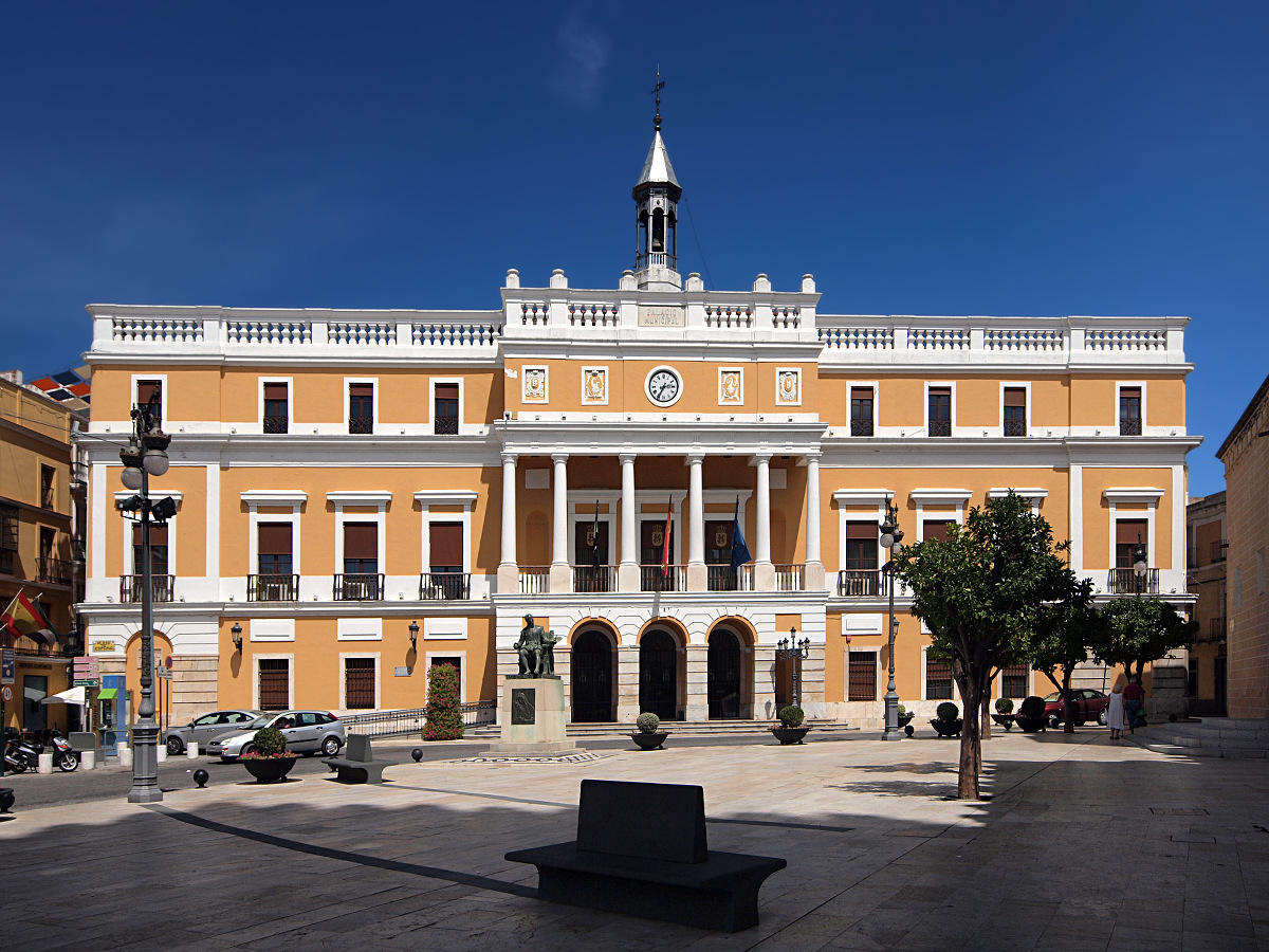 Badajoz, Plaza de España, Palacio Municipal